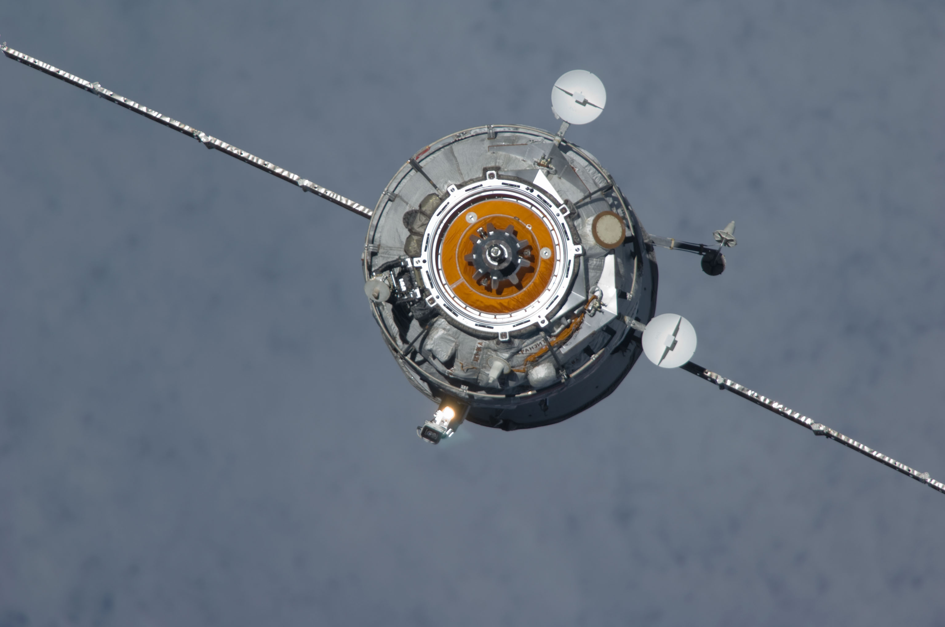 The new unpiloted Russian Mini-Research Module 2 (MRM2), also known as Poisk, approaches the International Space Station. The MRM2 docked to the space-facing port of the Zvezda Service Module at 9:41 a.m. (CST) on Nov. 12, 2009. It began its trip to the station when it was launched aboard a Soyuz rocket from the Baikonur Cosmodrome in Kazakhstan on Nov. 10. Poisk is a Russian term that translates to search, seek and explore. It will provide an additional docking port for visiting Russian spacecrafts and will serve as an extra airlock for spacewalkers wearing Russian Orlan spacesuits. Poisk joins a Russian Progress resupply vehicle and two Russian Soyuz spacecraft currently docked at the station.